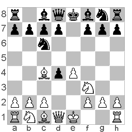 chess diagram Scotch gambit Source: CBlight + my processing